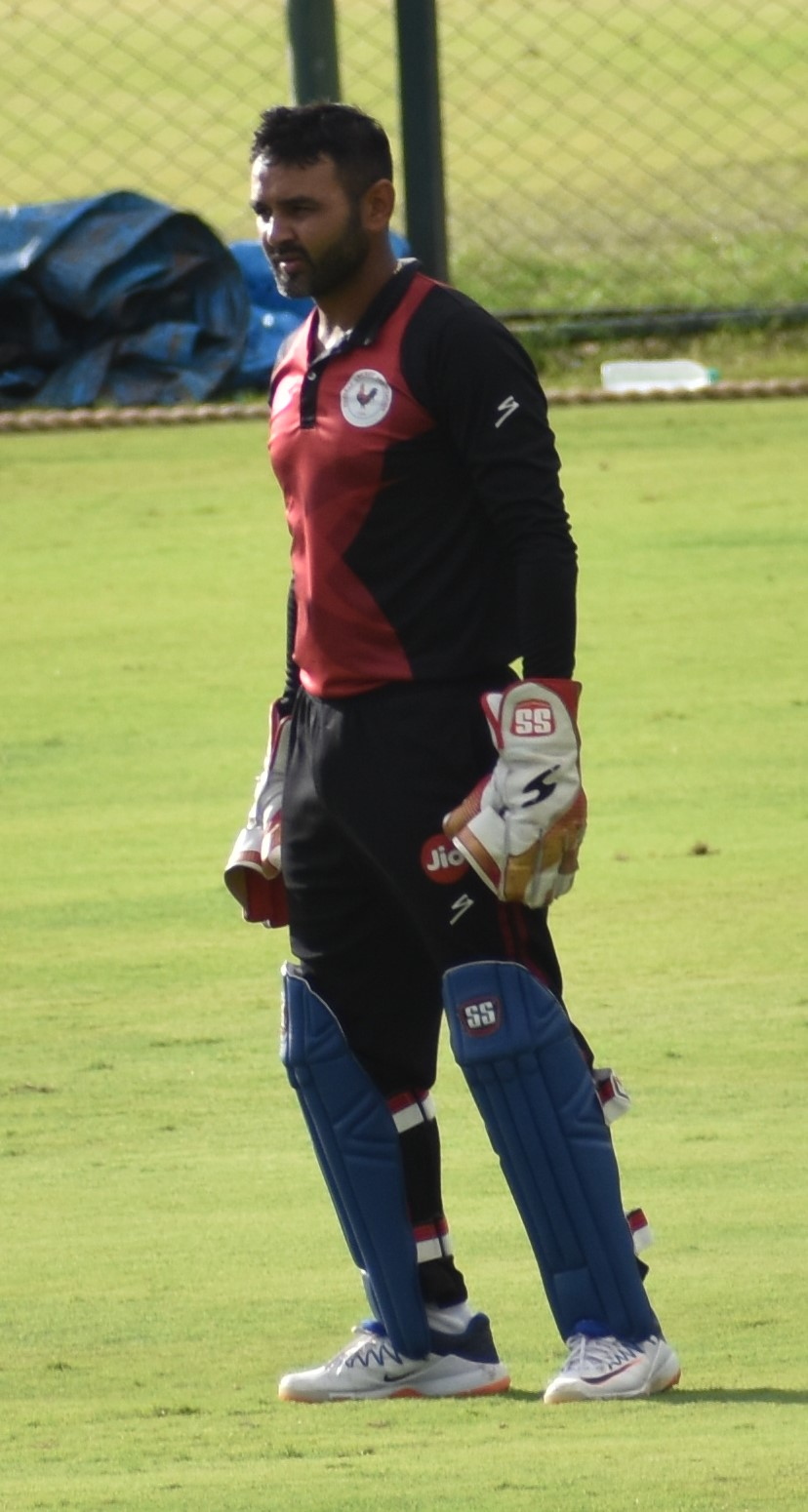 Indian cricketer Parthiv Patel during the 2019-20 Vijay Hazare Trophy in Rajanukunte, Bangalore.